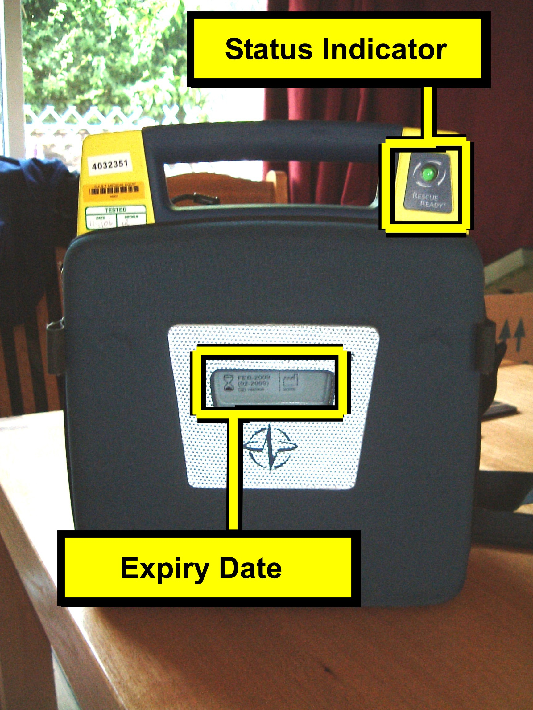 Automated External Defibrillator (AED) annotated to show the checks to be performed on the unit